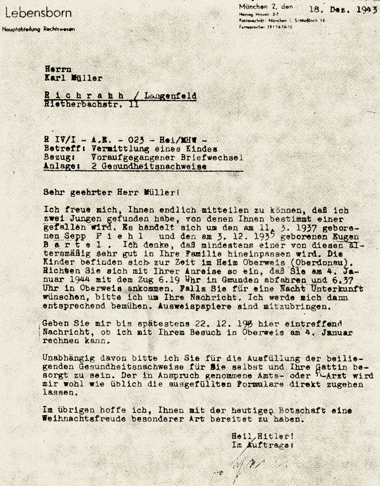 Lebensborn letter of 18 December 1943 to a German citizen Karl Müller, with the announcement that two boys were found, Sepp Piehl and Eugen Bartel by name, one of which he would likely find acceptable as adoptee. Both were deemed to be of suitable age for his household. The boy referred to as Eugen Bartel, was a Polish child which RuSHA in Lodz destined for "re-Germanization". Lebensborn is said to have forged a birth certificate in which his name was converted from the original Eugene Bartczak. The document derives from the archives of the former RuSHA in Lodz. 18 Dec. 1943 To Mr. Karl Müller Richrath / Langenfeld Rietherbach St. 11 R IV / I - A. E. - 023 - Hei / MHW - Subject: placement of a child Reference: Preceding correspondence Condition: proof of health (2 persons) Dear Mr. Müller! I am pleased to finally announce that I have found two boys, one of which you will most likely approve. They are Sep Piehl, born on December 3rd, 1935, and Eugen Bartel, born on March 11th, 1937. I believe that at least one of them is of an age that is well-suited to your household. The children currently live in Oberweis (Upper Danube). Arrange to take the 6:19 train leaving Gmunden on January 4, 1944, and arriving in Oberweis at 6:37. If you need overnight accommodation, confirm with me and I will arrange it. It is necessary that you bring your identification papers with you. Please notify me no later than December 22, 1935, whether I can expect you in Oberweis on January 4. In any event, please complete the accompanying proofs of health for yourself and your wife. The authorized departmental or SS physician will, as is standard, provide me with the completed forms. I hope that my news to you has given you special Christmas joy. Hail Hitler! On behalf of: signed